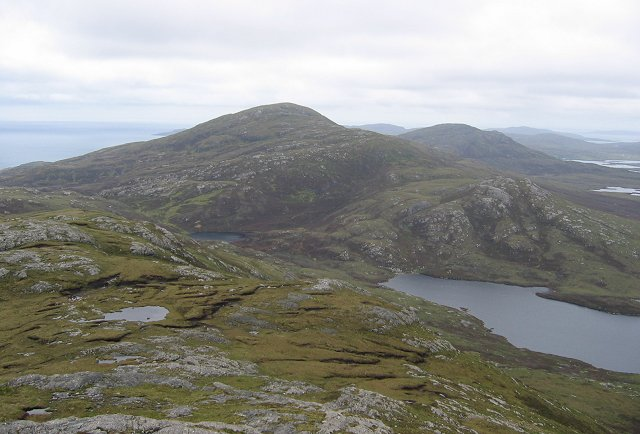 South Ridge of Stulabhal. Looking down the south ridge of Stulabhal, the usual mix of peat and exposed rock, to Triuirebheinn.